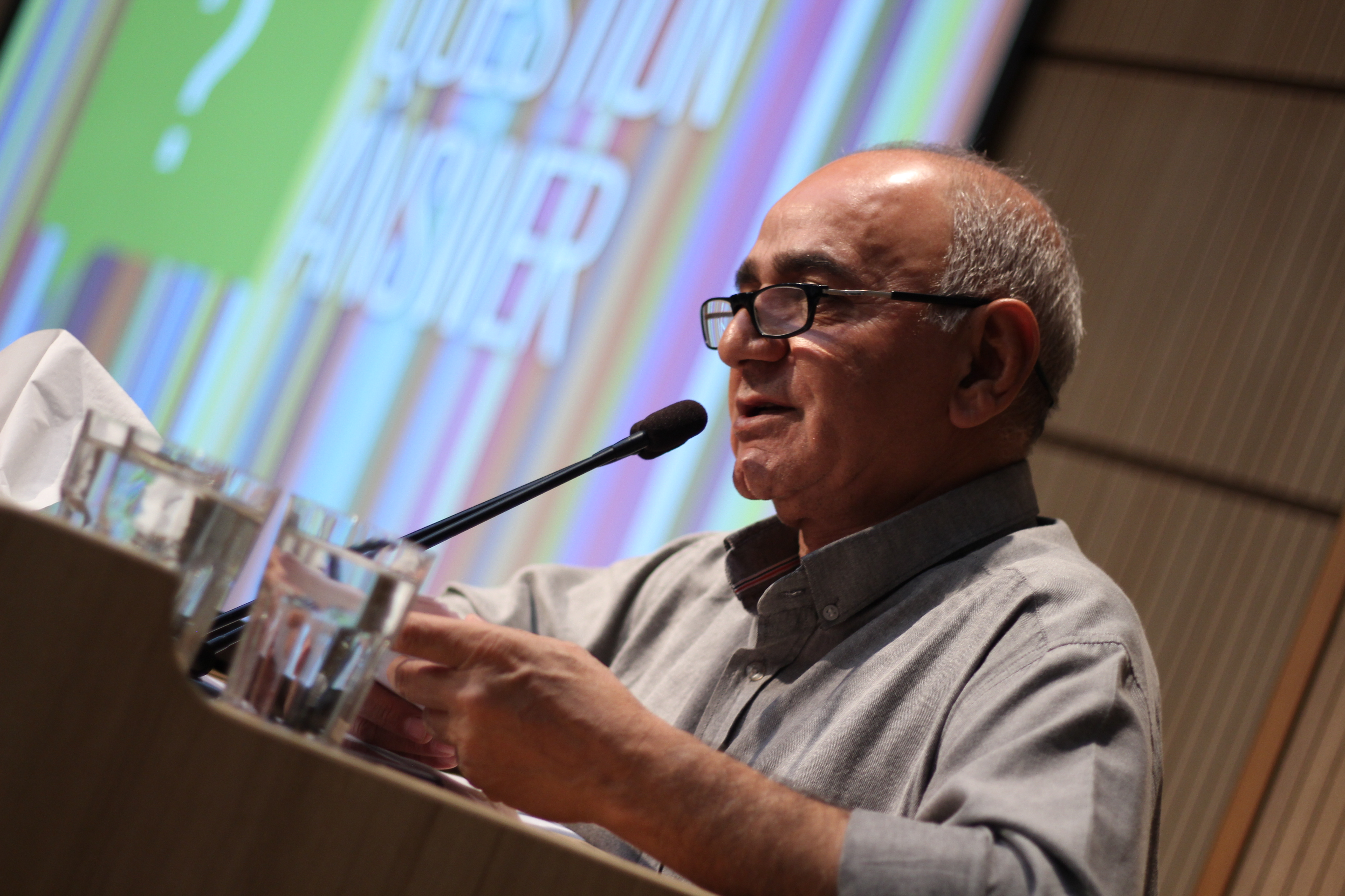 Parviz Parastui at 6th Event of CreativeMornings/Tehran